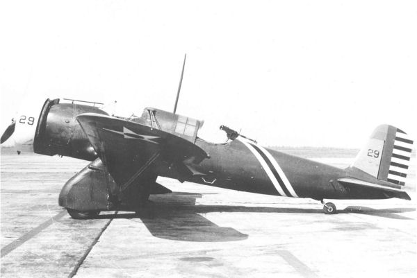 Side view of Curtiss A-12 Shrike Serial 33-229 of the 13th Attack Squadron, 3rd Attack Group.